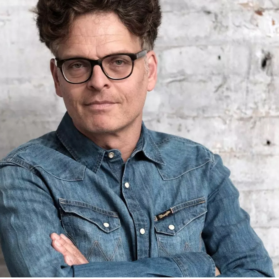 Swiss journalist and digital expert Michael Marti